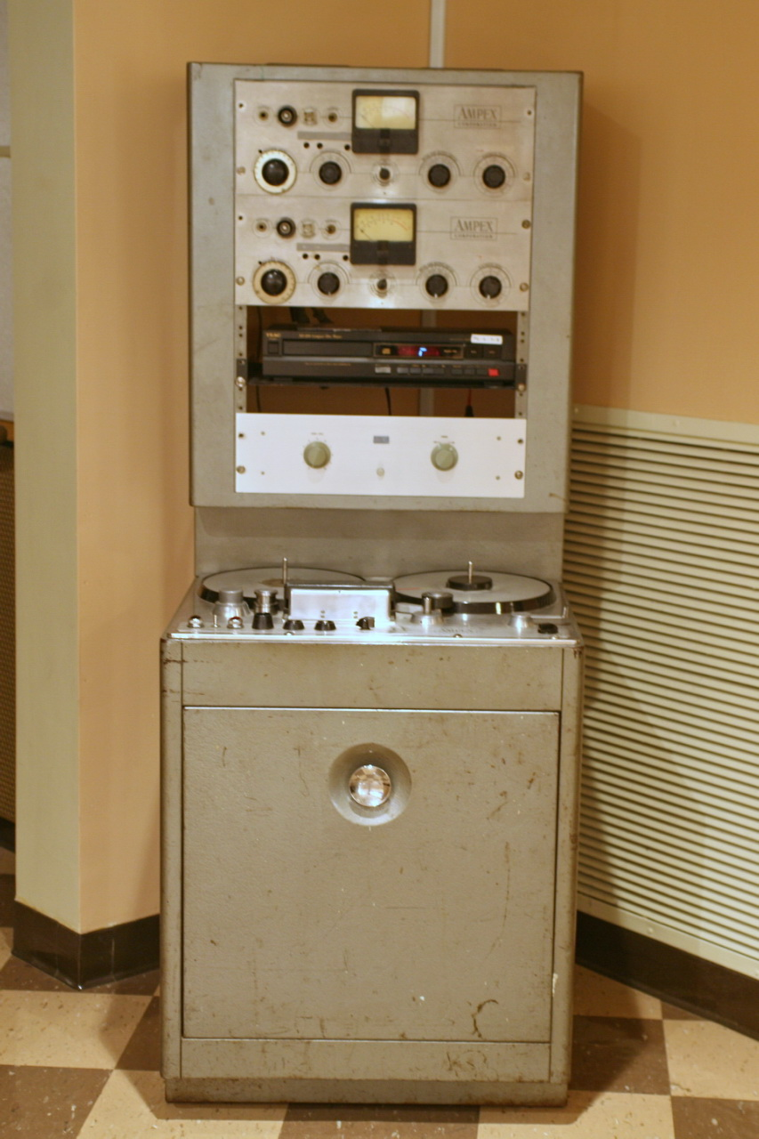 Ampex Corporation introduced the model 300 multi-channel magnetic tape recorder in 1949. Early users of these machines concentrated primarily on the development of stereophonic recording techniques, but it was soon apparent that multi-channel recorders were opening the way to a wide variety of other applications. During 1957, Ampex began to market half-inch three channel model 300 recorders [1] using high crosstalk rejection, cast-construction head assemblies. References ↑ When Vinyl Ruled, 2000-09i. 109th AES Convention in Los Angeles, 2000 Sept 22...25. AES Historical Committee, Audio Engineering Society.